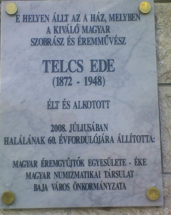 Commemorative plaque of Ede Telcs, Budapest District XII, Alkotás Street No 41